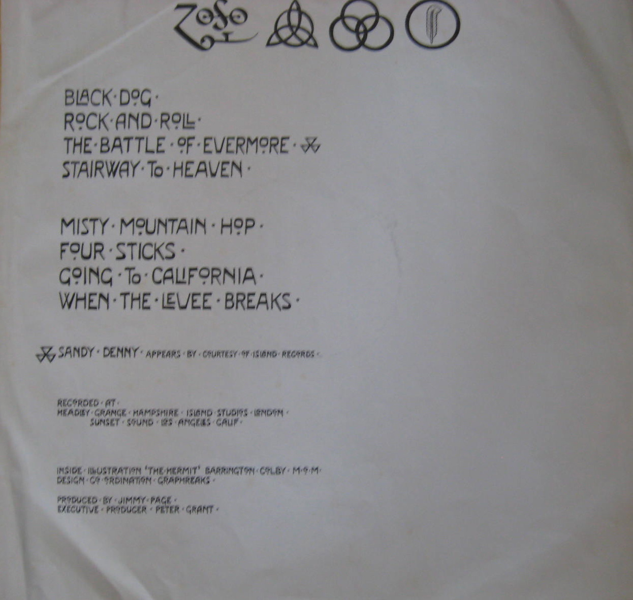 Led Zeppelin IV Sleeve